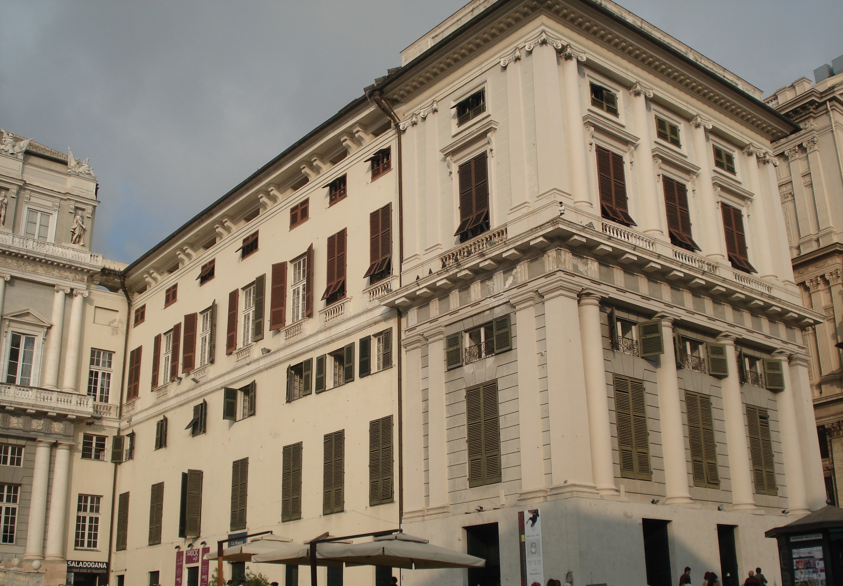 East wingof Doge's Palace in Genoa